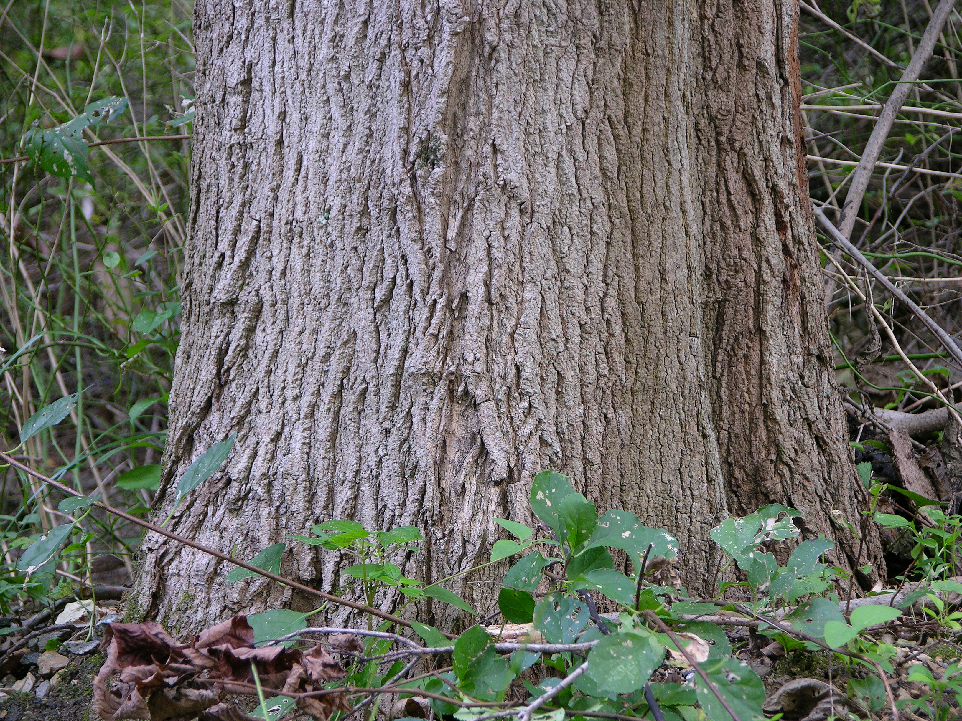 A photograph of the base of the trunk of Sugar Maple (Acer saccharum) showing the tree's bark. Species identification performed by the Pennsylvania Department of Conservation and Natural Resources. Photo taken at the Ridley Creek State Park.